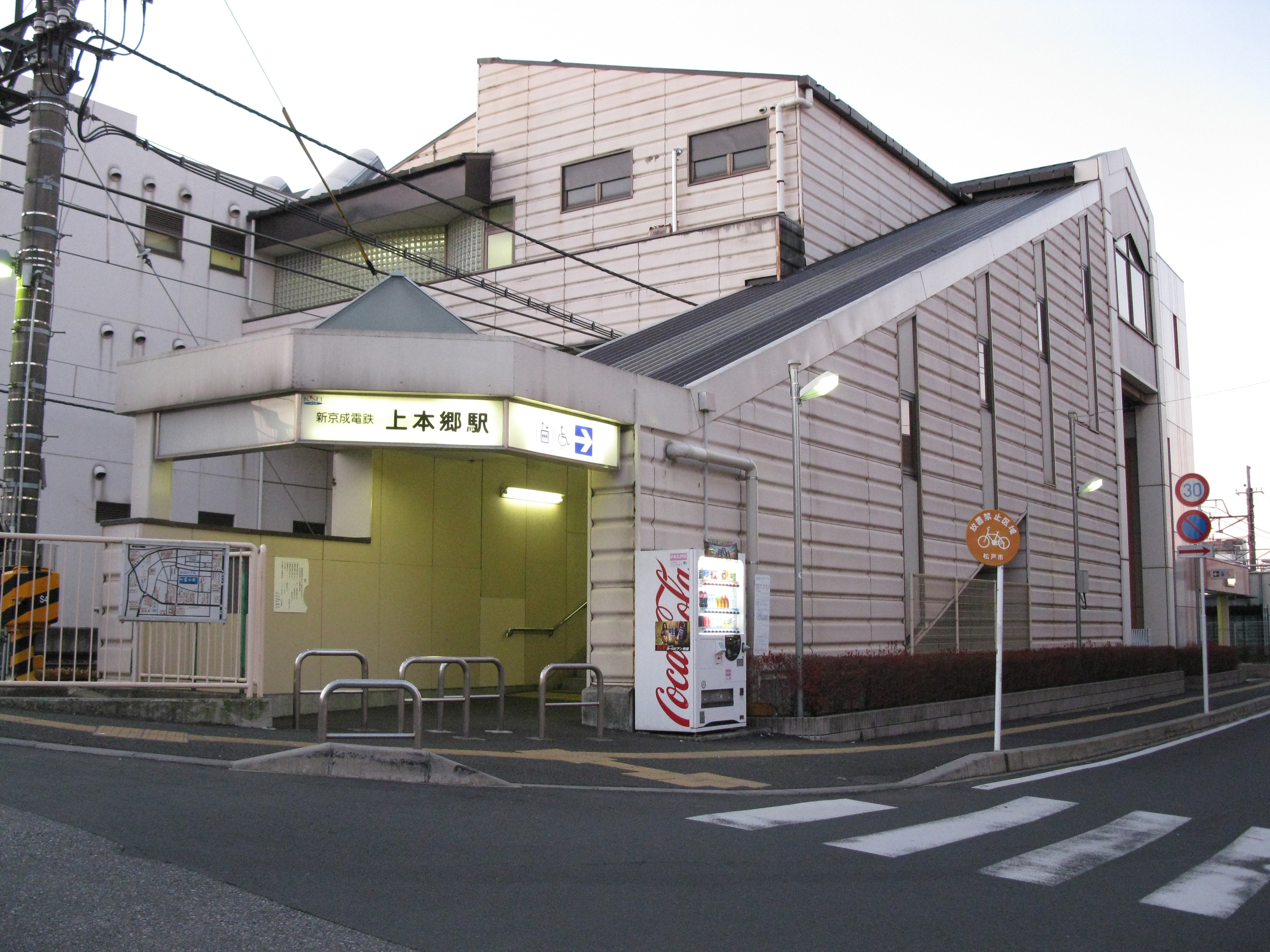 Kamihongō Station northside entrance (Shin-Keisei Electric Railway Shin-Keisei Line)